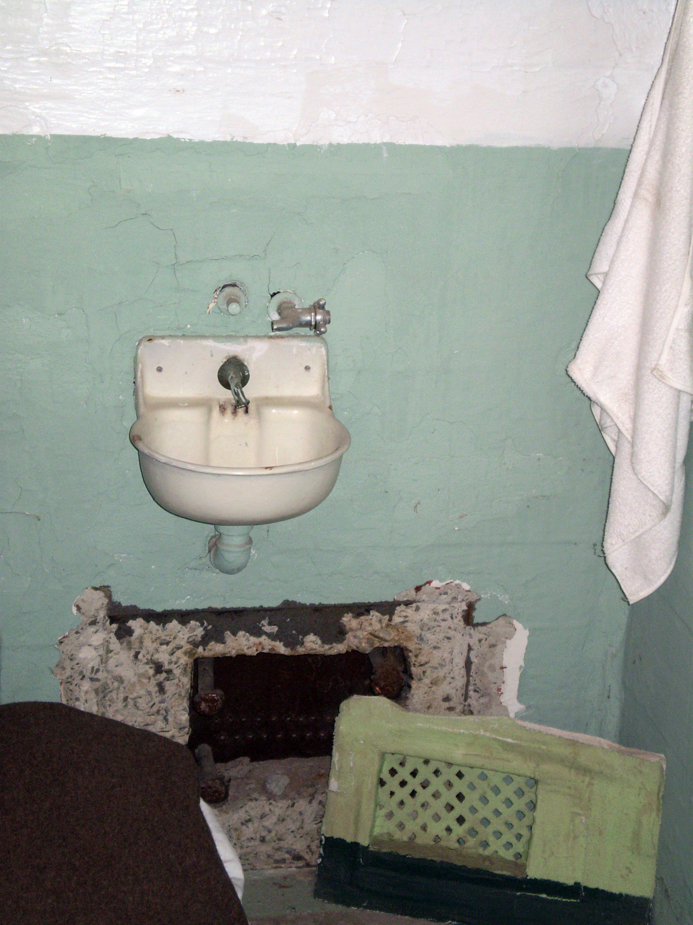 Cells in Alcatraz Island (Frank Morris, John Anglin e Clarence Anglin's ones)